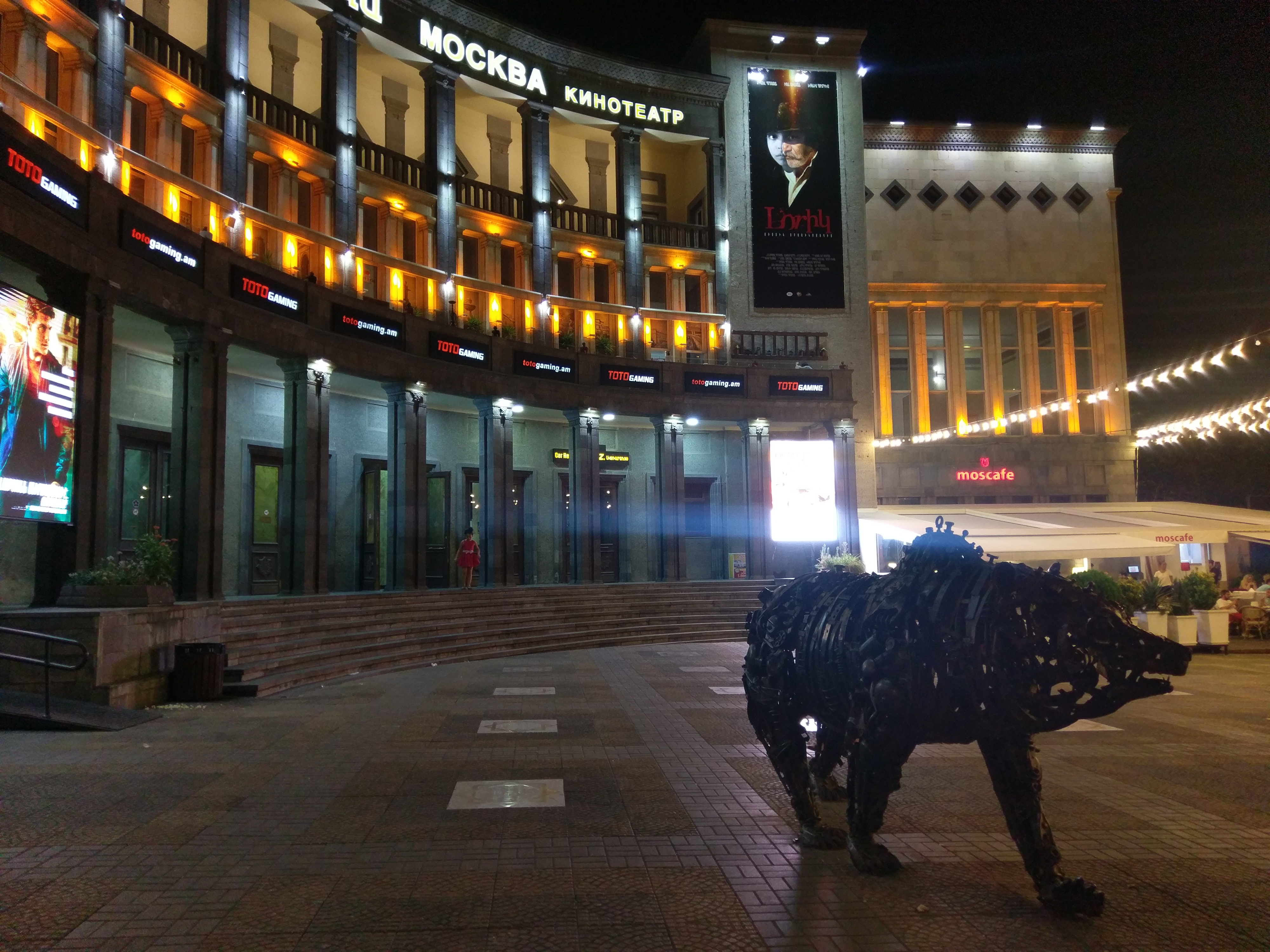 Moskva (Moscow) Cinema